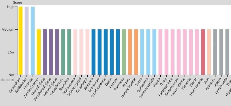 This figure shows how DHX8 expression is in different tissues.